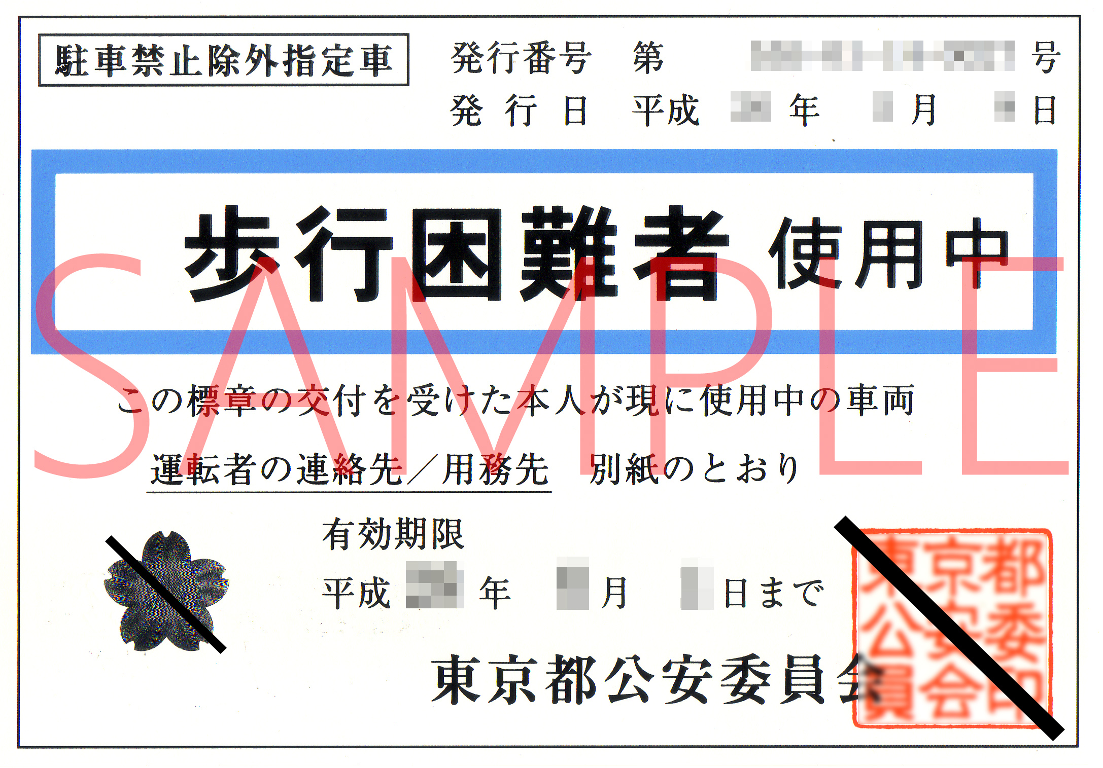 Special parking permit for disability person issued by Tokyo Metropolitan Public Safety Commission. Displayed car will be excepting from no parking regulation. This image was edited.